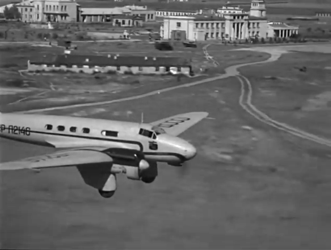 Brovary Airfield, 1940. PS-89 (ZIG-1). Flight СССР-Л2146. Frame from the film "Будні"("Weekday") (Published 1940 by Mosfilm and Belarus Segodnya).